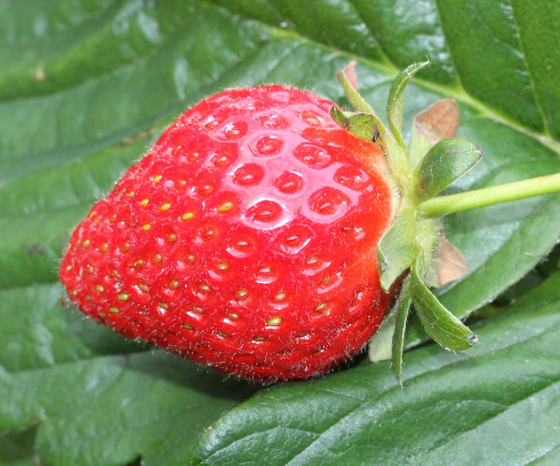 Fragaria x ananassa Duchesne ex Rozier